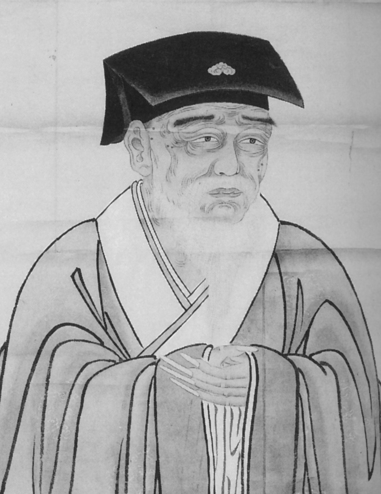 portrait of Shu Shunsui(1600 - 1685),copy Kusakawa Shigetoo in 1872